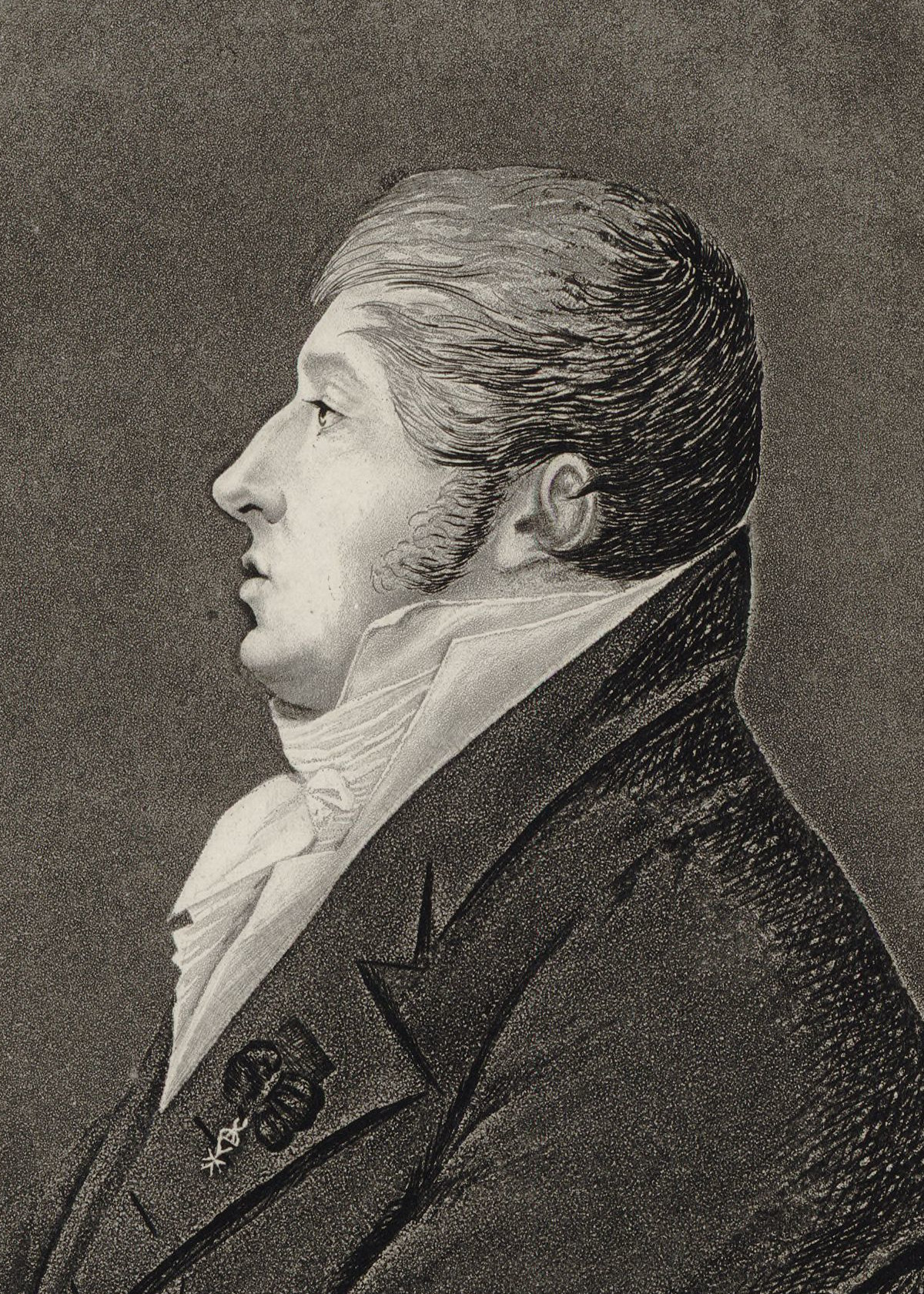 French composer Nicolas Isouard (1775–1818)